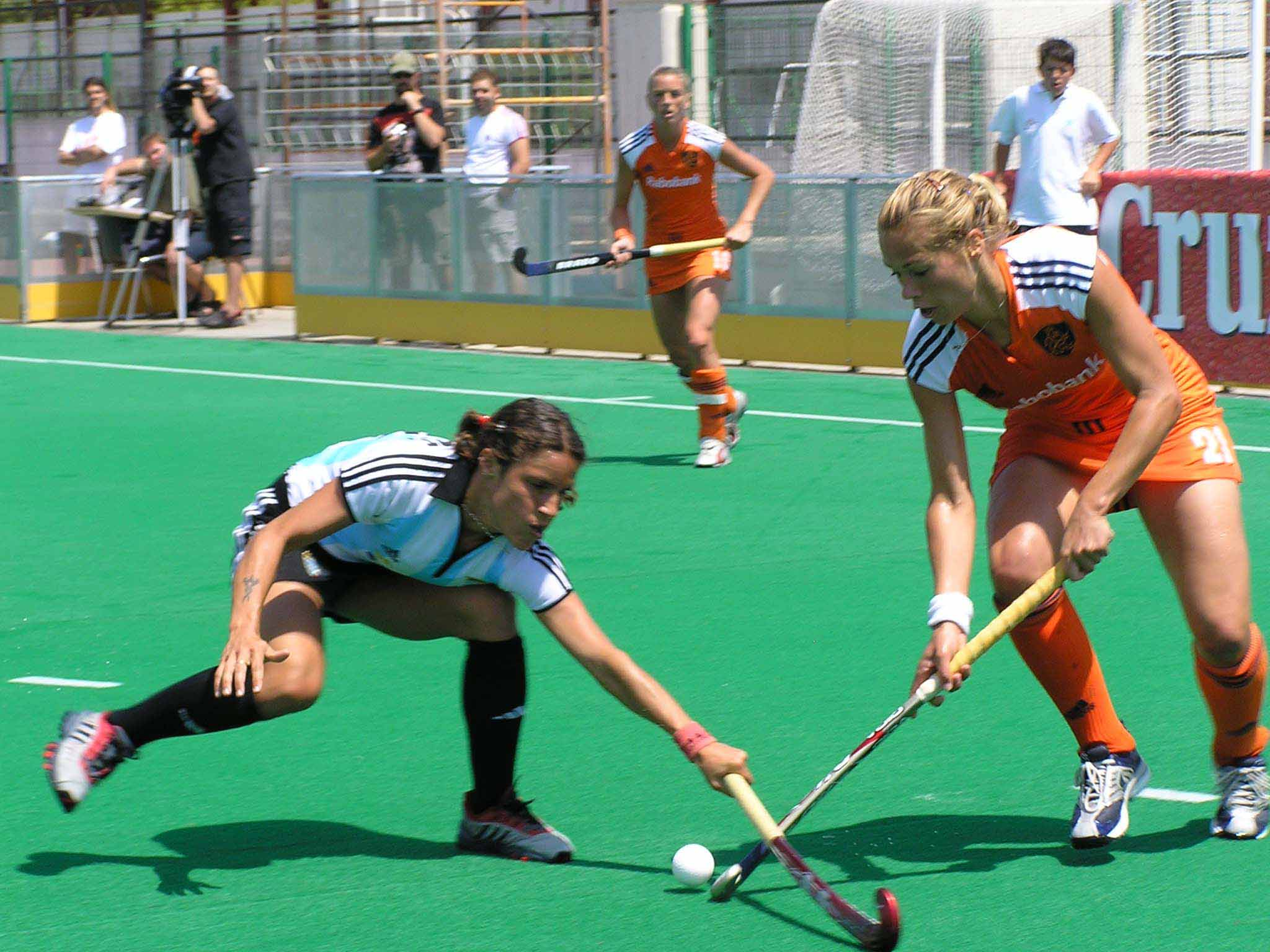 Mercedes Margalot (Argentina) and Sophie Polkamp (Netherlands) dueling in a hockey match between the Argentinian and Dutch national teams in 2005.